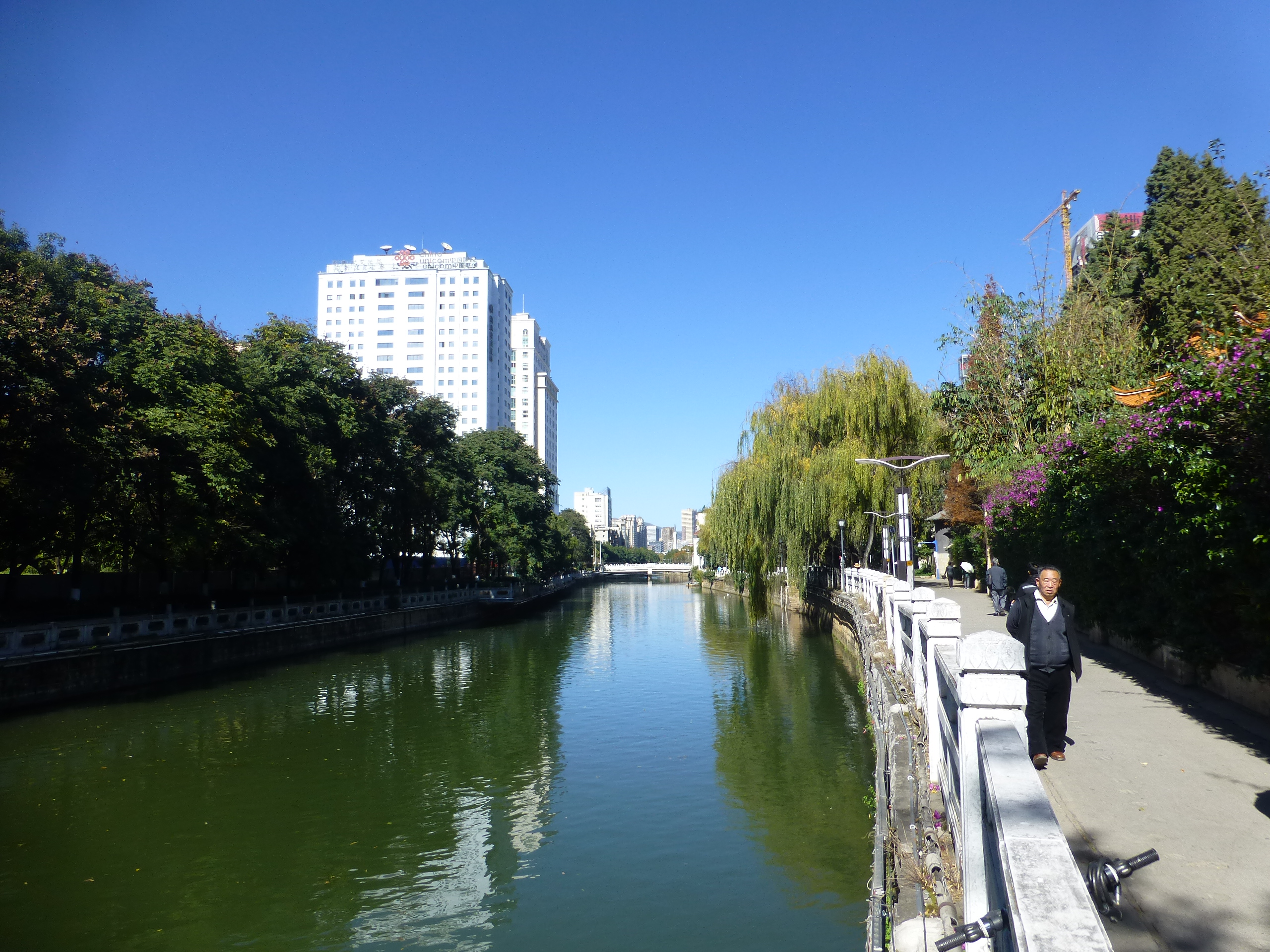 In a linear park along the Panlong River in Kunming. (Near the Nantai Bridge)